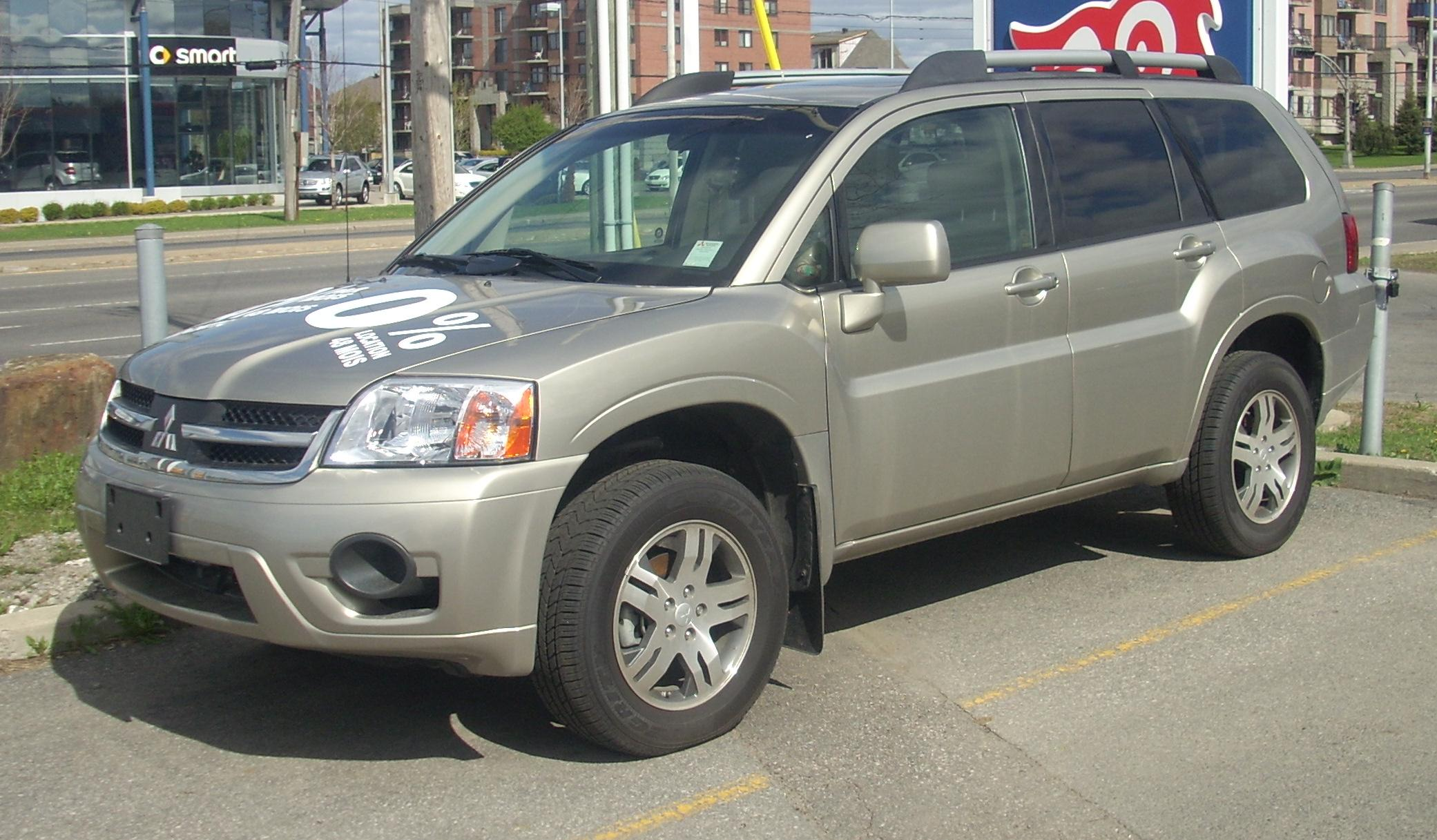 2006-present Mitsubishi Endeavor photographed in Montreal, Quebec, Canada.